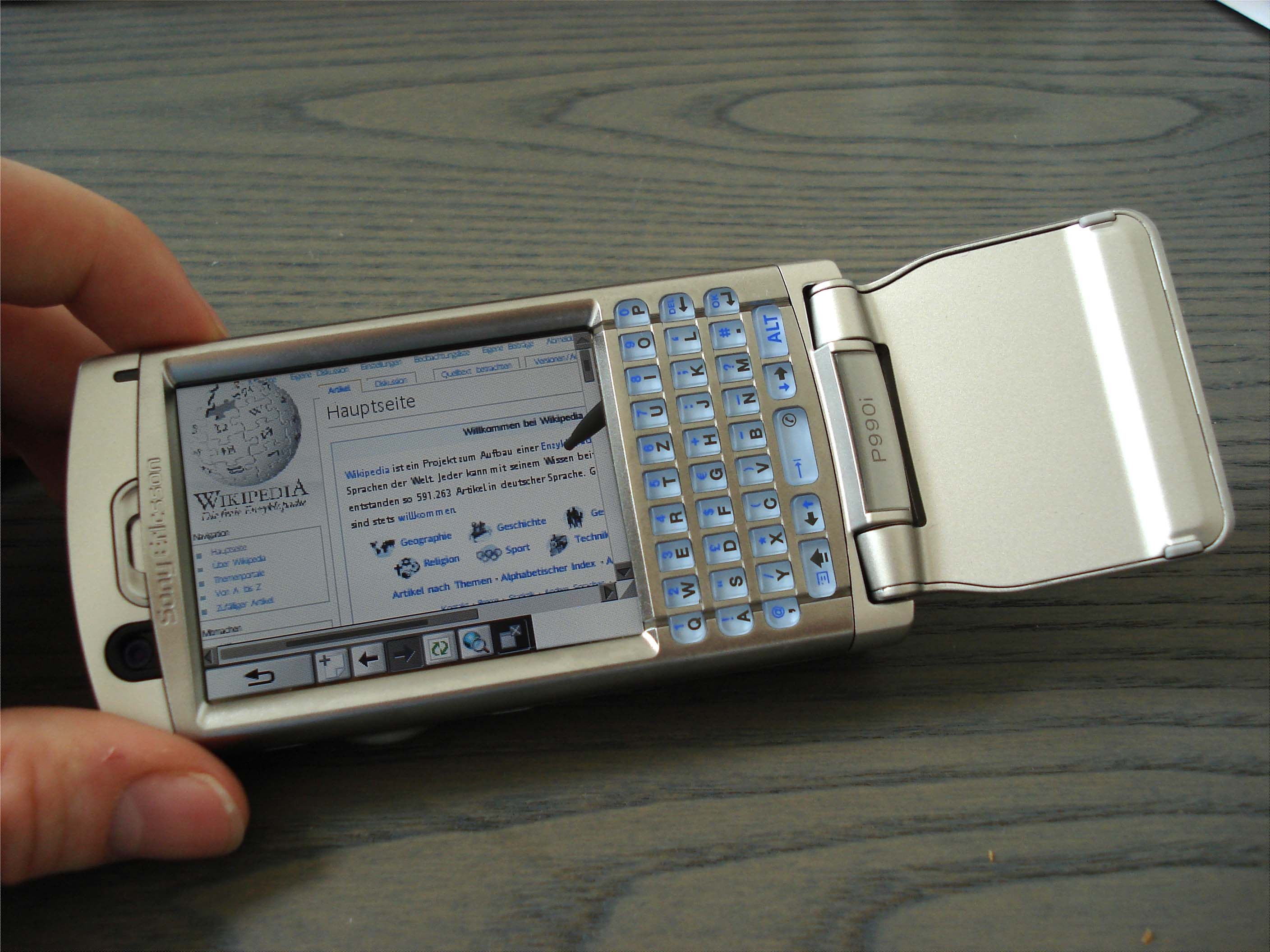 Sony Ericsson P990i smartphone showing the german Wikipedia main page on the internal (opera based) web browser